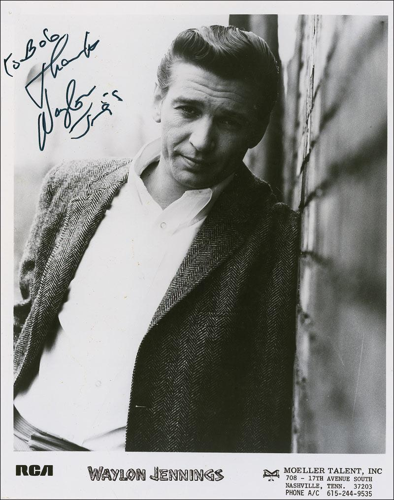 Waylon Jennings publicity portrait for RCA records, 1966.